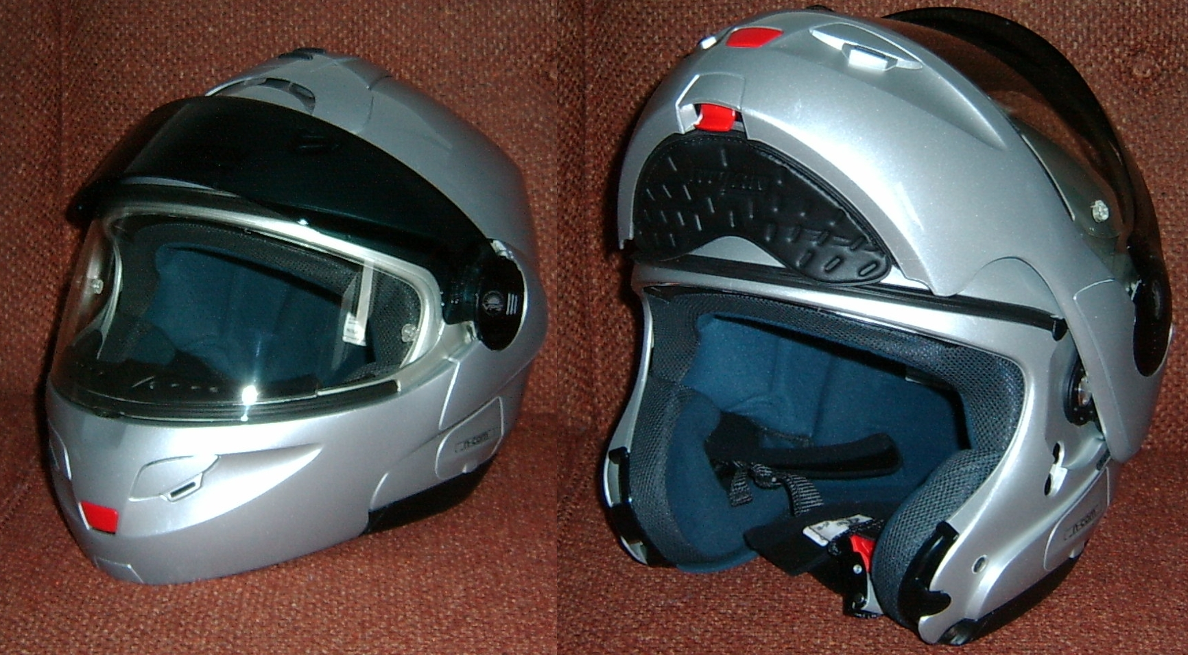 Nolan N102 modular "flip-front" motorcycle helmet, closed and open images combined.